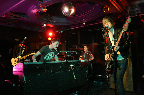 Air Traffic live @ London Luminaire, Nov 8th 2007